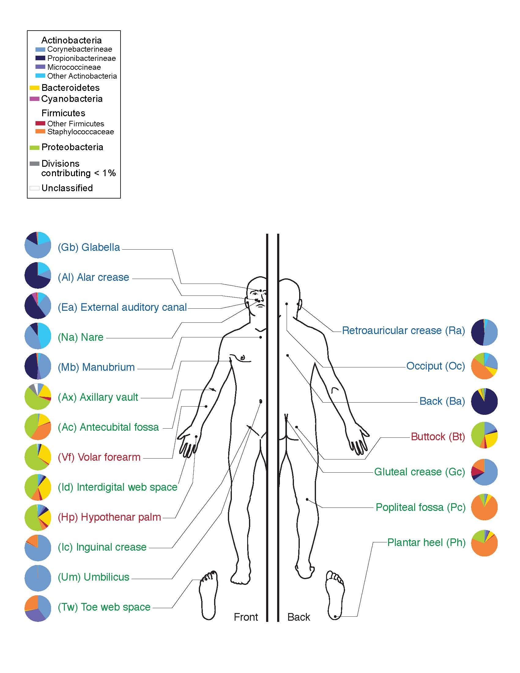 Depiction of the human body and bacteria that predominate; there are both tremendous similarities and differences among the bacterial species found at different sites.